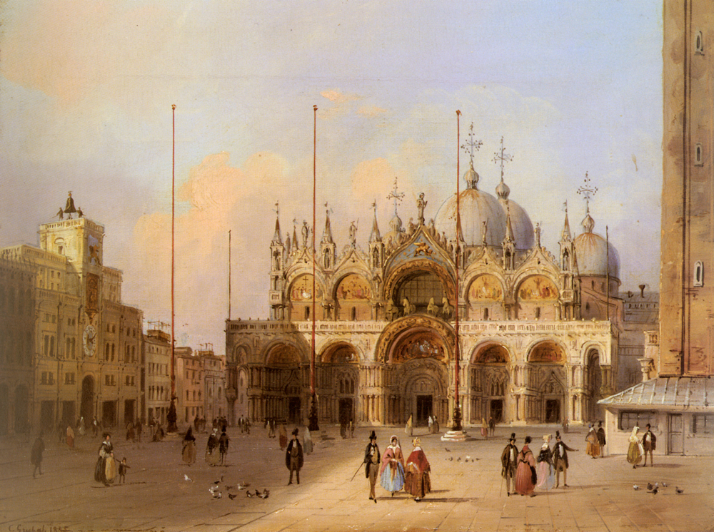 Basilica Di San Marco